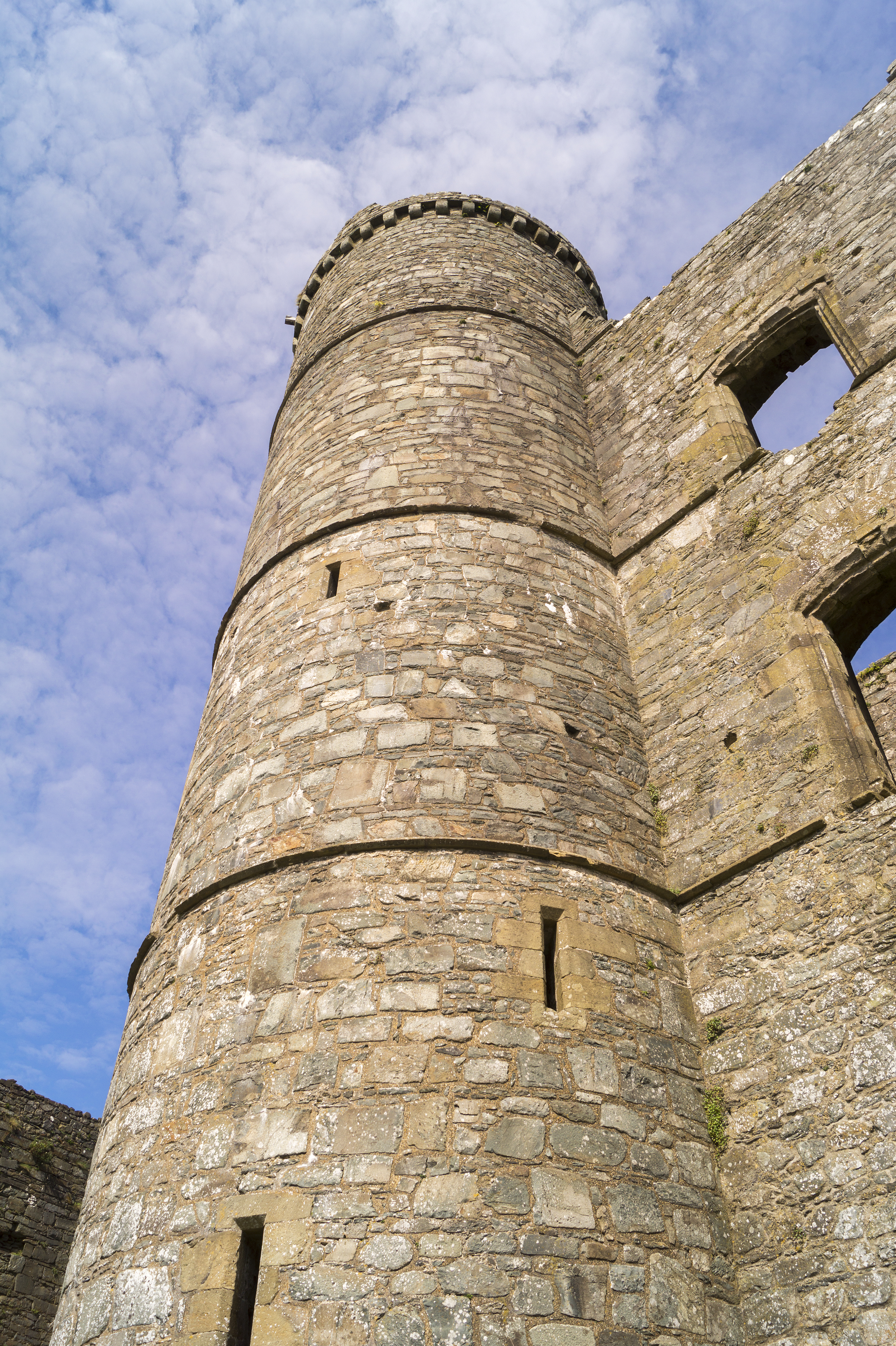 Looking up at the gatehouse of Harlech Castle, Harlech, Merionethshire, Wales, a fortification constructed on the orders of King Edward I between 1282 and 1289 to guard his newly-conquered territories in the long-independent north of Wales. The castle is a UNESCO World Heritage Site.